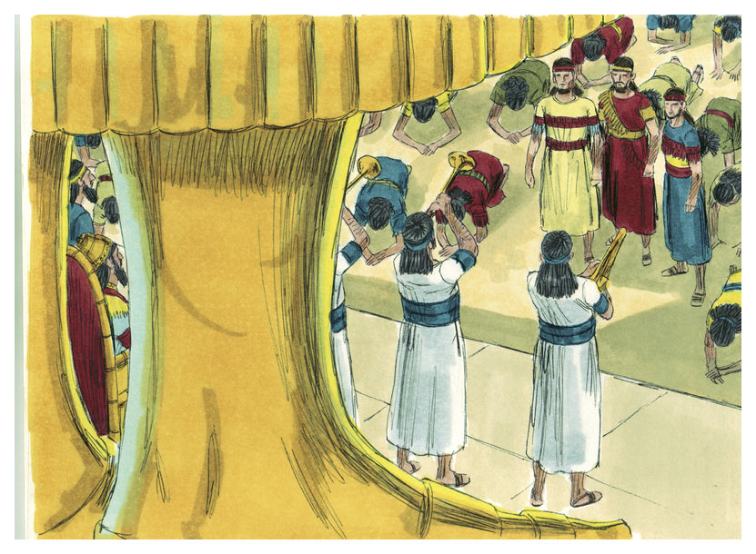 Biblical illustration of Book of Daniel Chapter 3